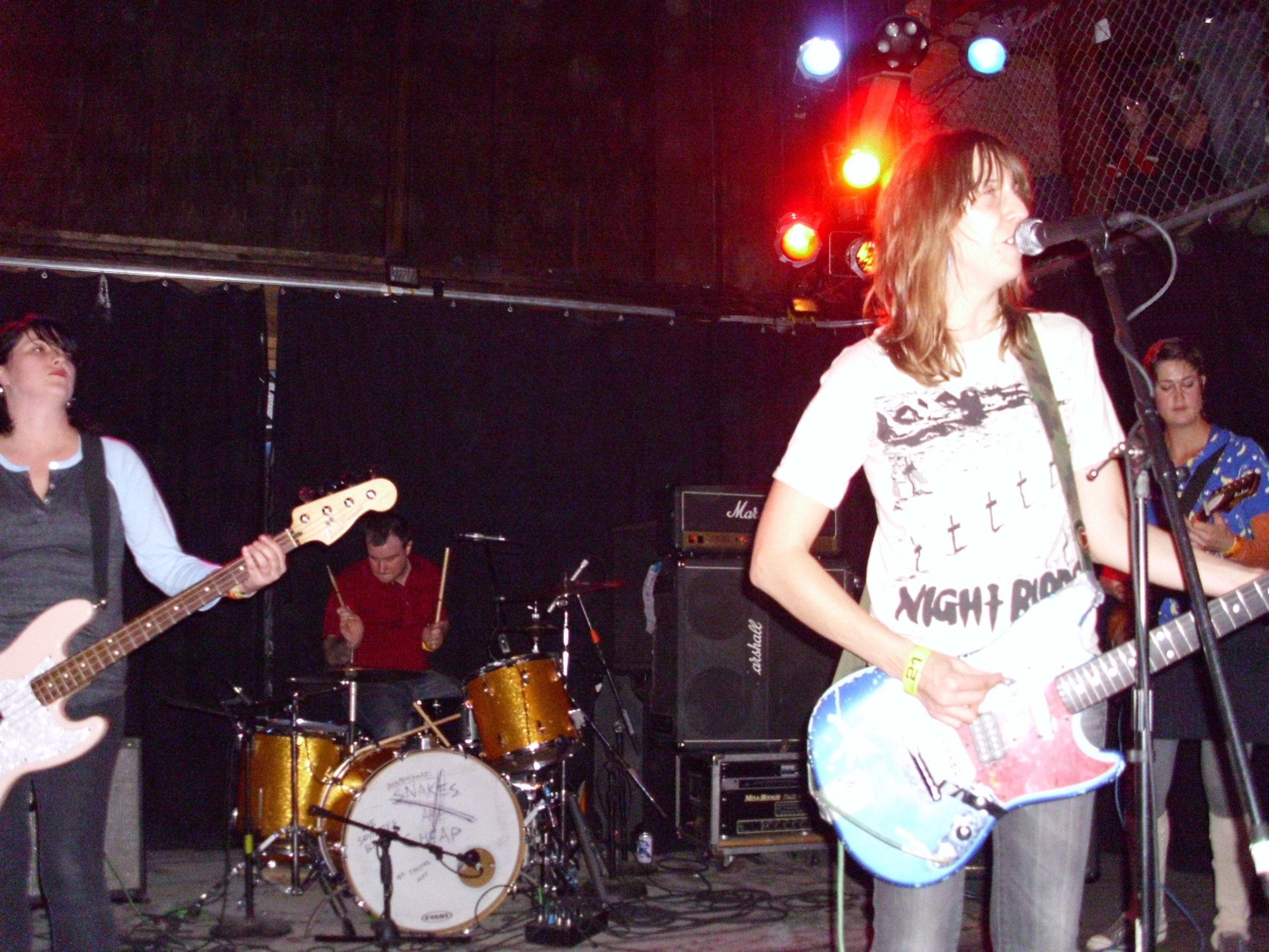 The Soviettes at Reggies Rock Club, Chicago 2010-11-13